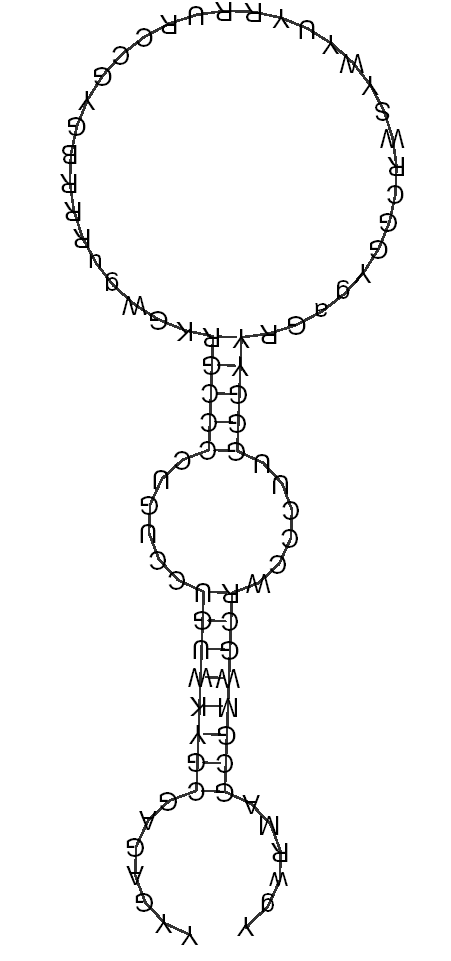 RNA secondary structure of TB11Cs4H3 generated by the WAR server( It is the consensus structure from 4 Trypansomatid species -Trypanosoma brucei, Trypanosoma brucei gambiense, Trypanosoma cruzi, Trypansoma vivax